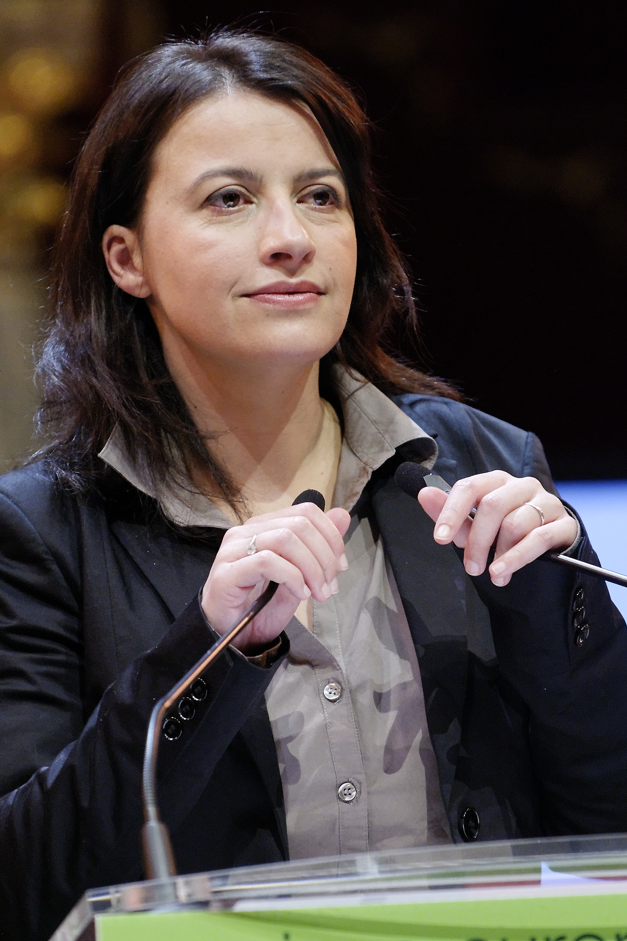 Cécile Duflot at Europe Écologie's closing rally of the 2010 French regional elections campaign at the Cirque d'hiver, Paris.